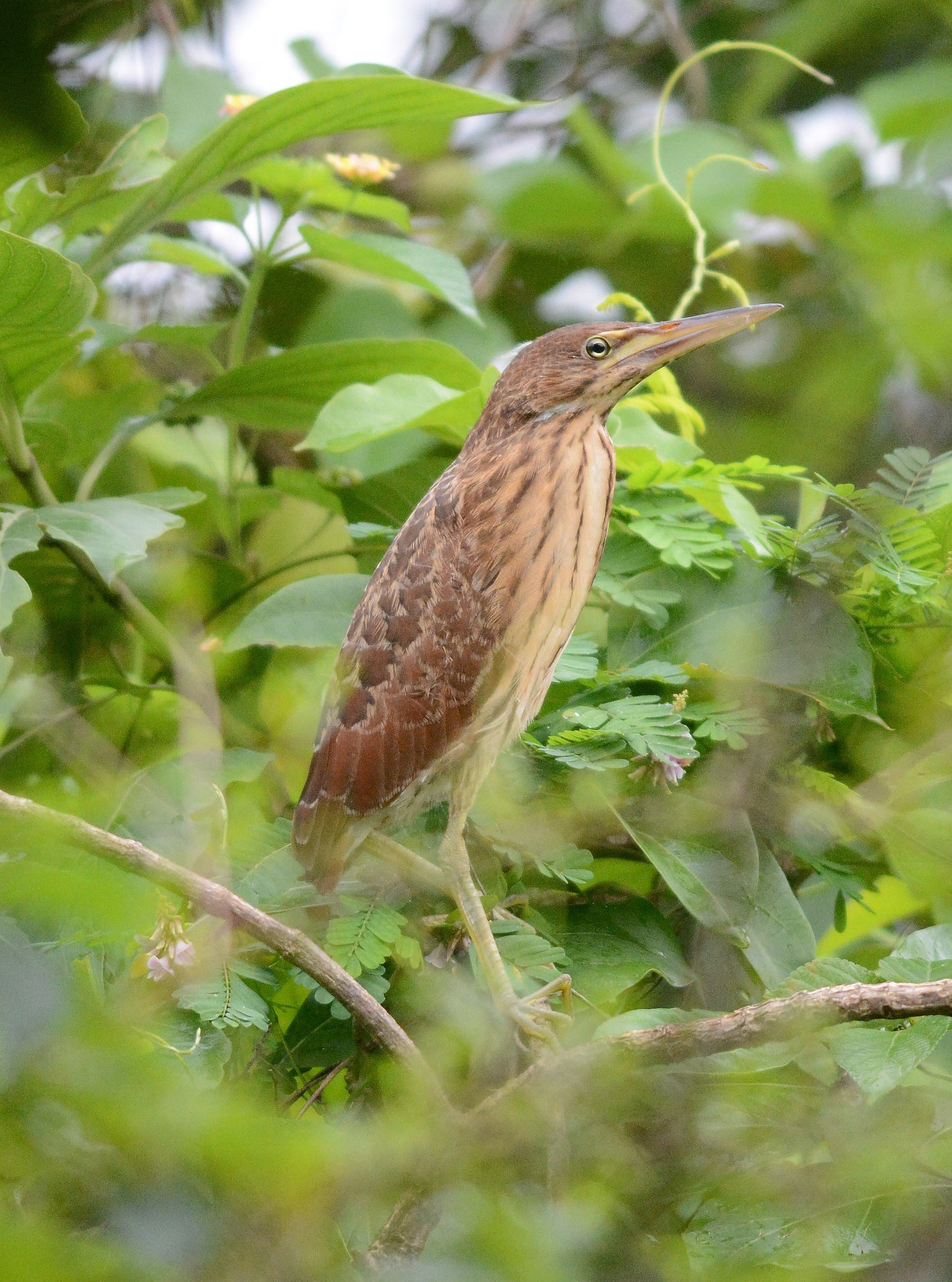 Chestnut or Cinnamon Bittern Ixobrychus cinnamomeus Juvenile by Dr Raju Kasambe